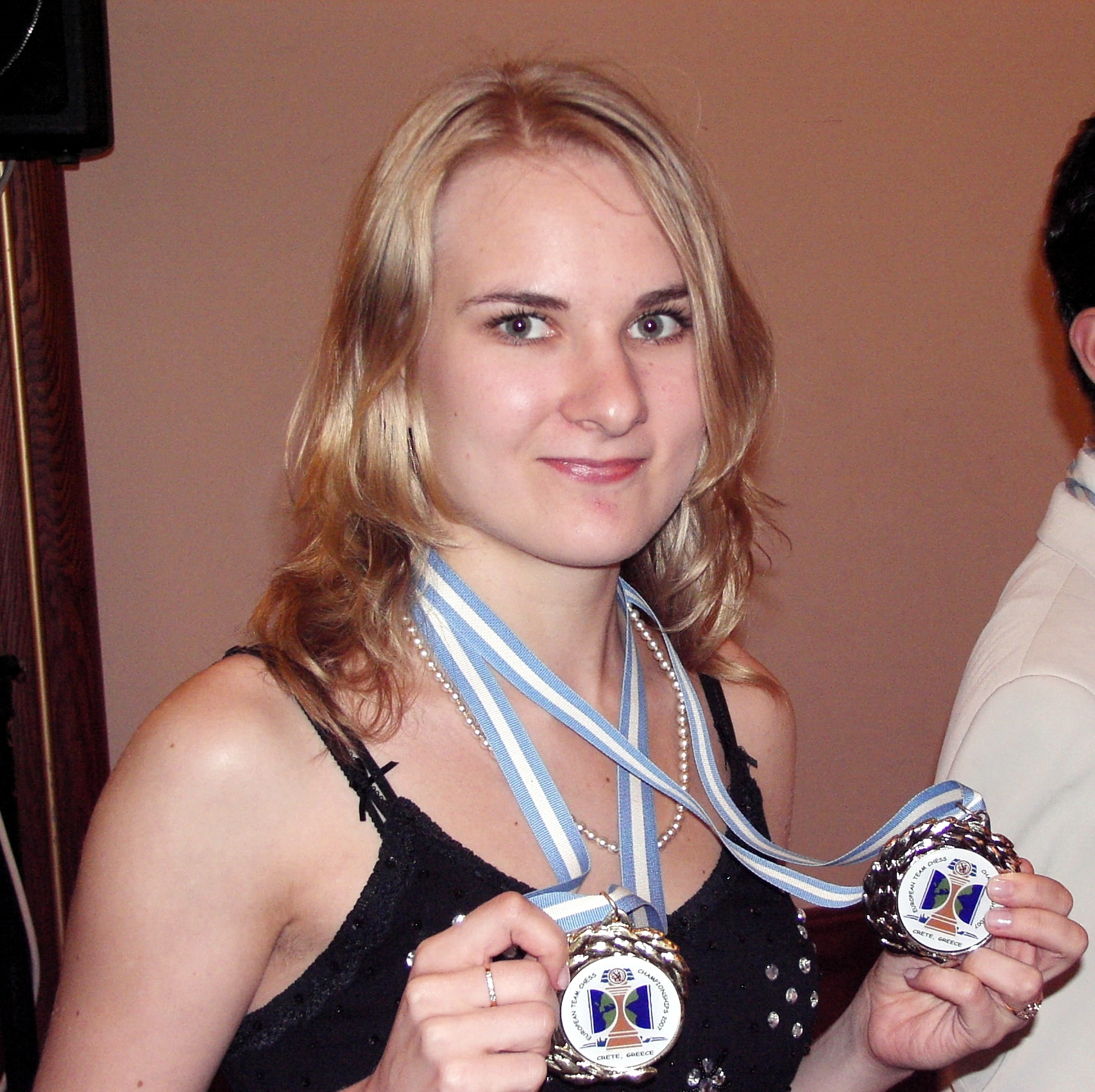 GM Ekaterina Korbut Russia, EuroChess Iraklion 2007